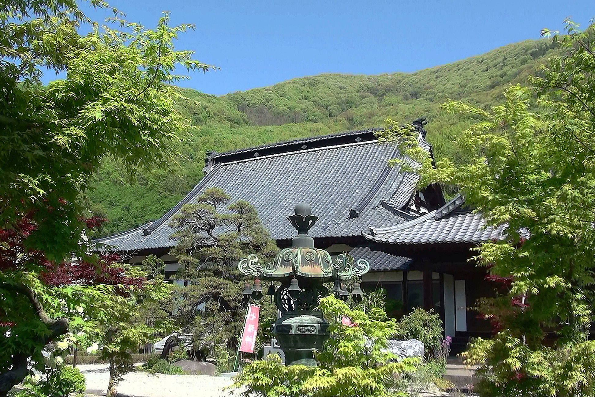 Daizokyouji temple Fuefuki-city